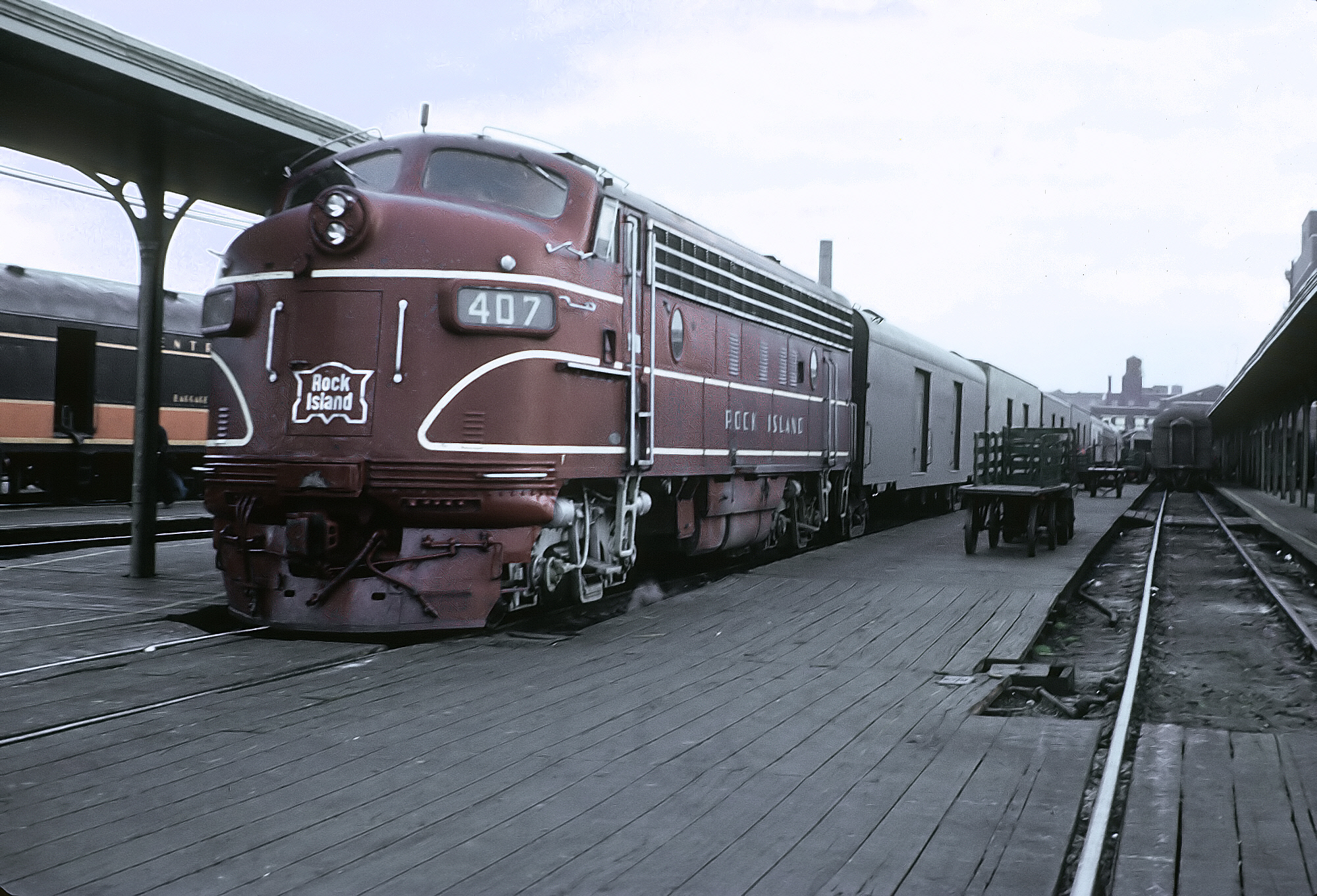 Photo by Roger Puta